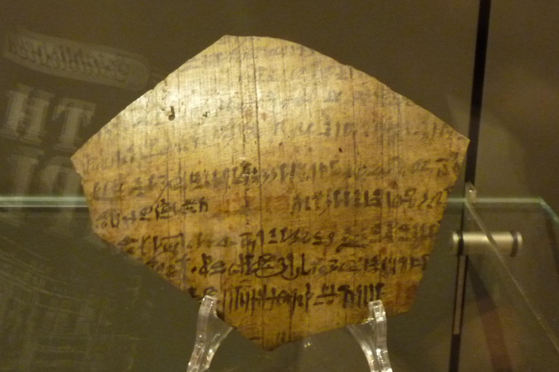 Ancient Egyptian ostrakon with the beginning of the Ghost story. Terracotta from Deir el-Medina, 19-20th Dynasty, New Kingdom. Found by Schiaparelli in 1905. Turin, Museo Egizio, S.6619.